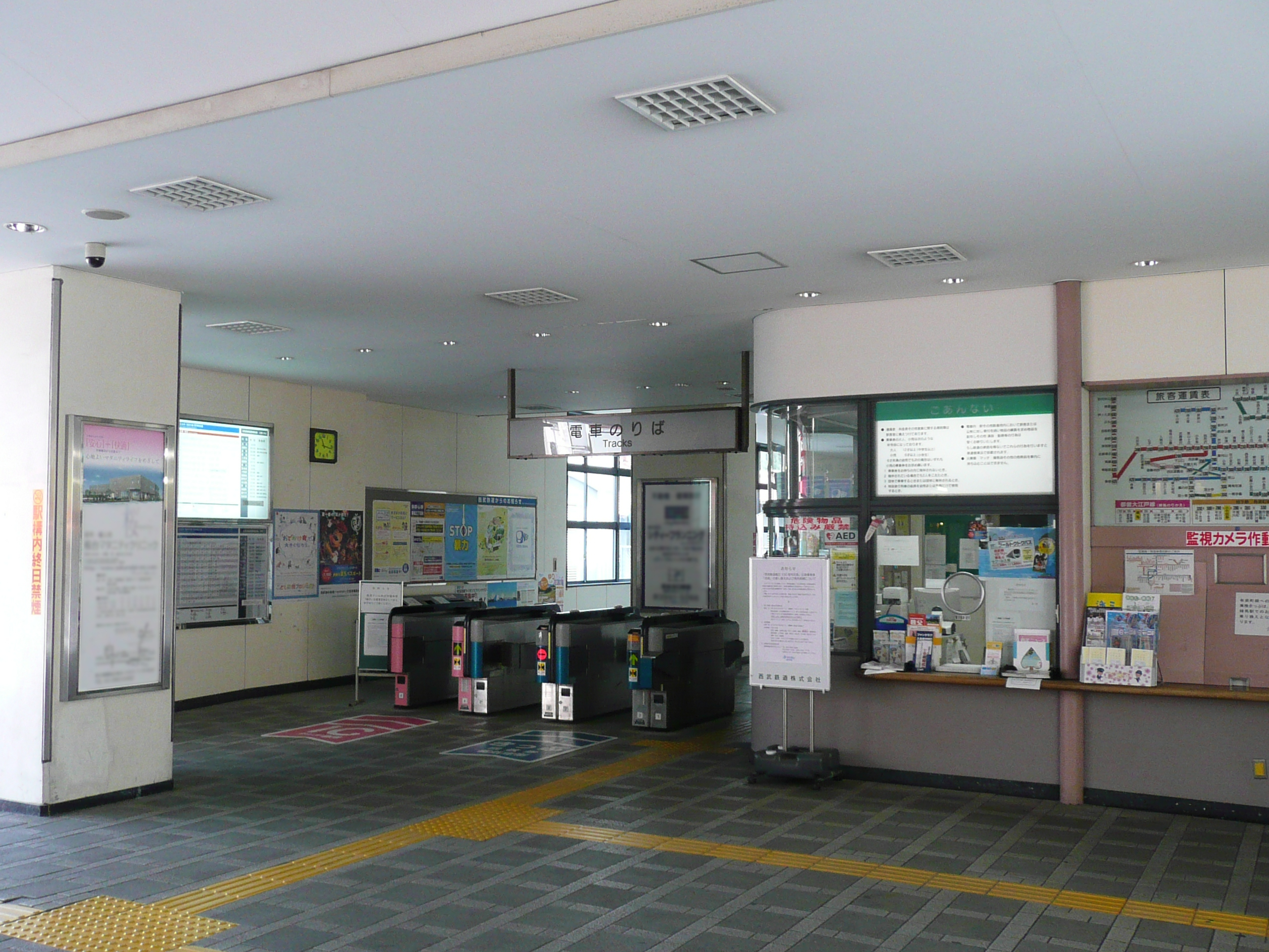 Ticket gate of Sakuradai Station